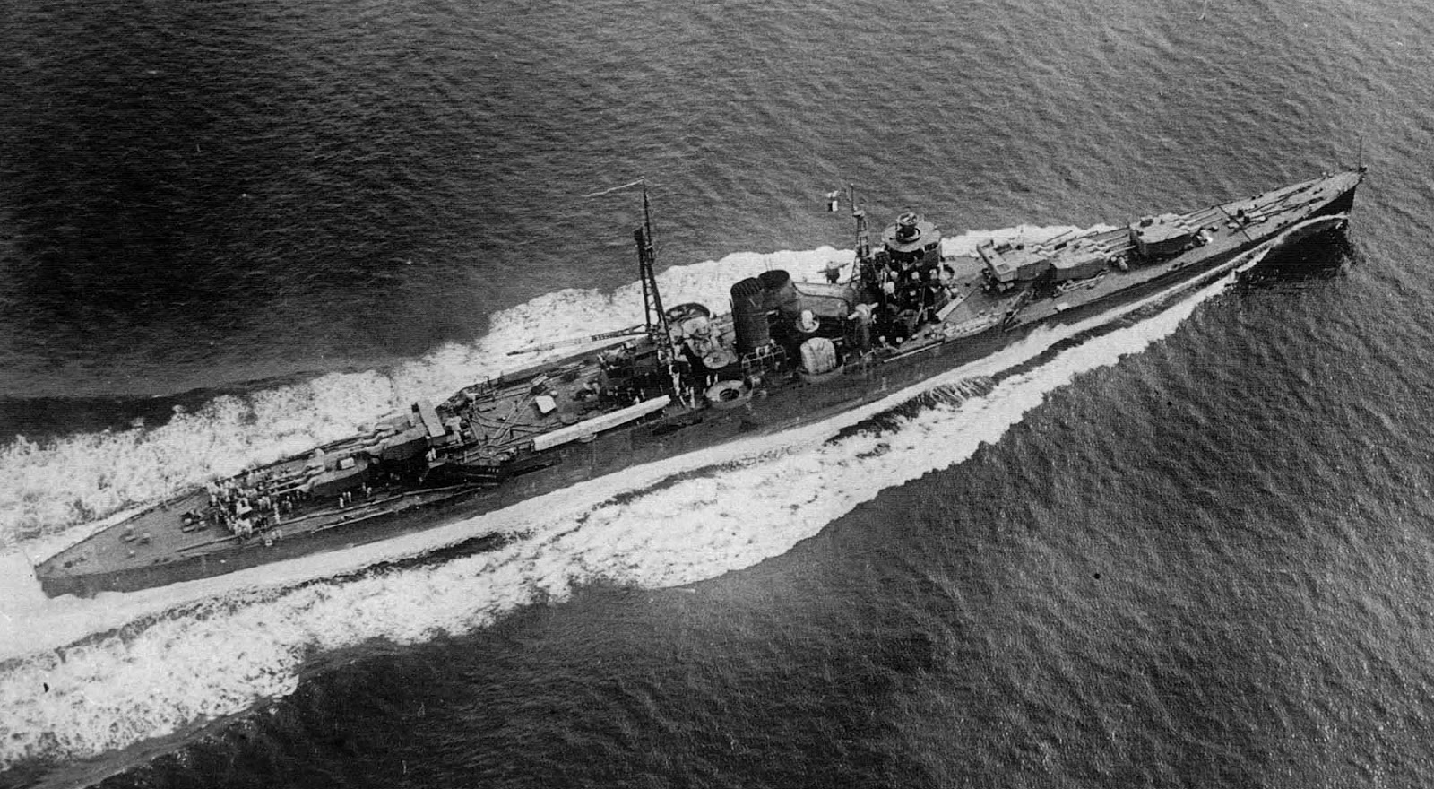 Japanese cruiser Suzuya during trials of Tateyama, in the first half november 1935 (U.S. Navy HH 73034, courtesy Mr. Hando Kazutoshi, 1970).